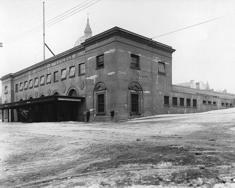 Photograph, Canadian Northern Railway Station, Montreal, QC, 1918(?), Wm. Notman & Son, Silver salts on glass - Gelatin dry plate process 20 x 25 cm